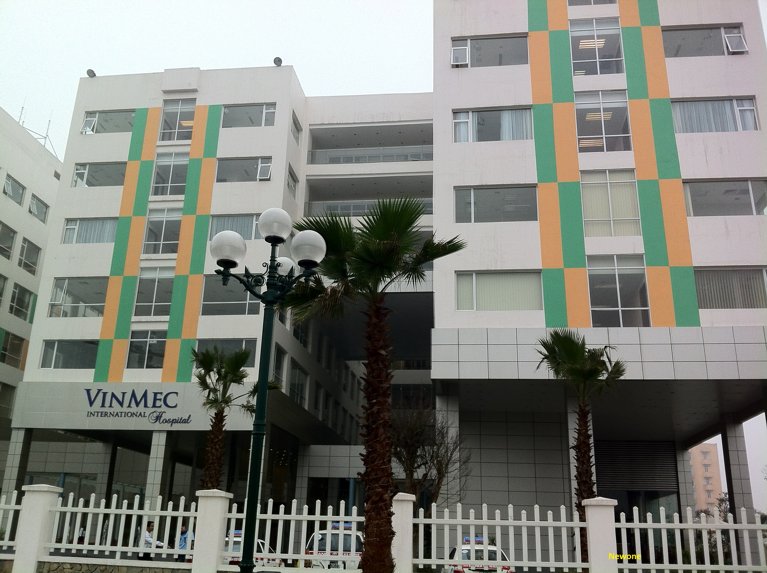 Vinmec International Hospital (Times City, Hanoi)